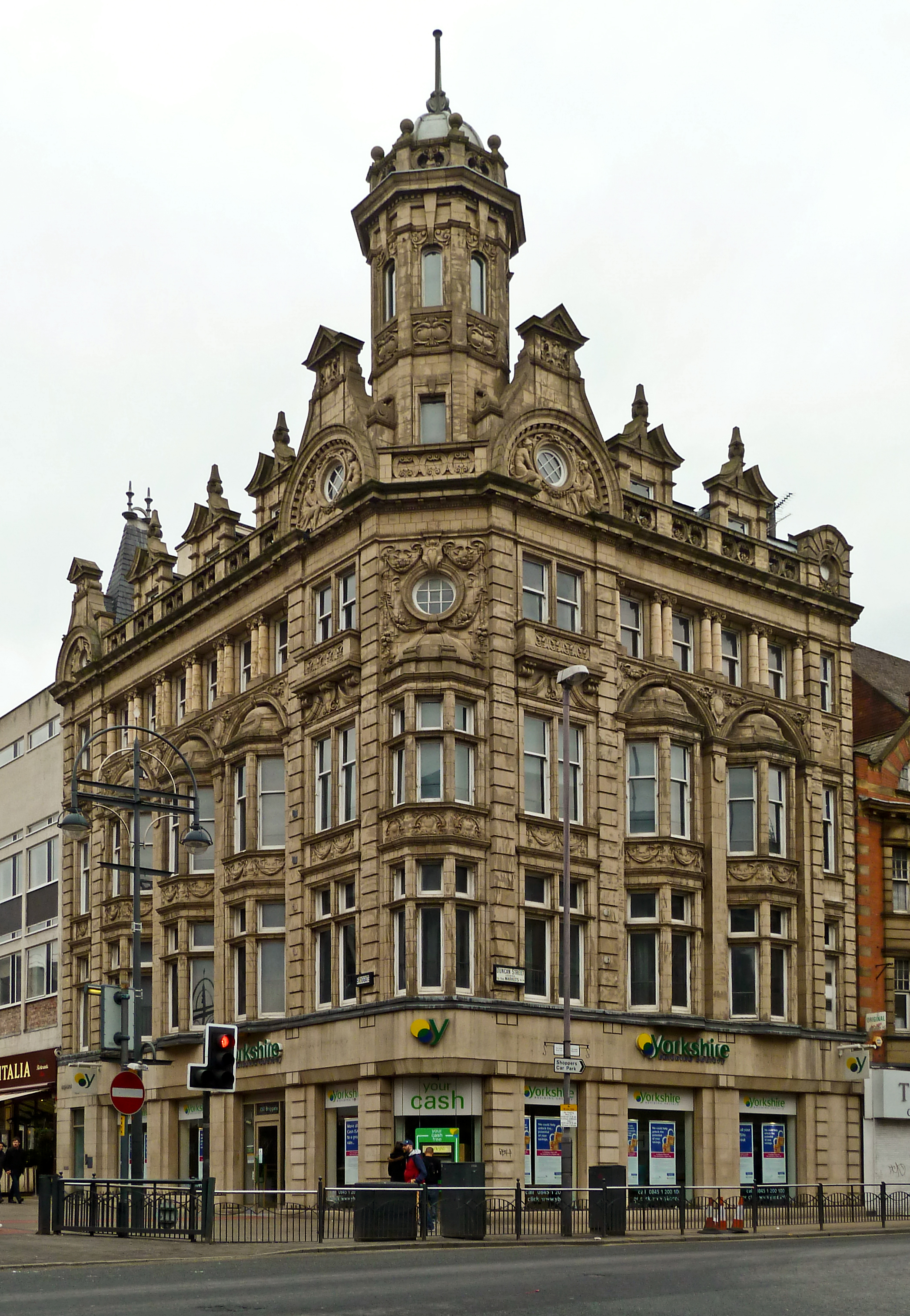 Yorkshire Building Society branch, 148–150 Briggate and 4 Duncan Street, Leeds, West Yorkshire, seen from the southwest